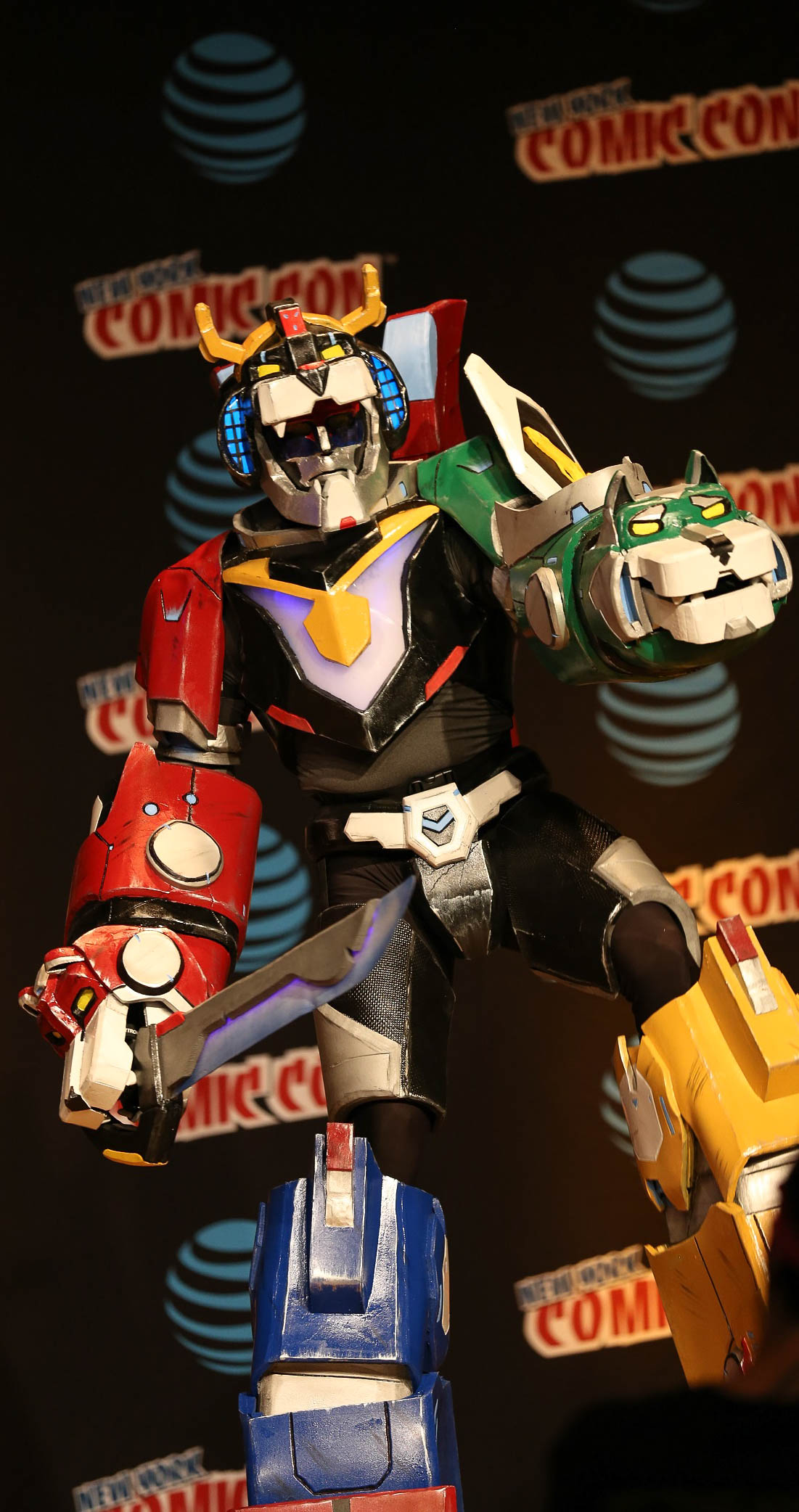 OutLAW2LK cosplaying as Voltron (from Voltron: Legendary Defender) in the Eastern Championships of Cosplay contest at the 2016 New York Comic Con — second-place in the overall competition and first-place winner in the Larger-Than-Life category.